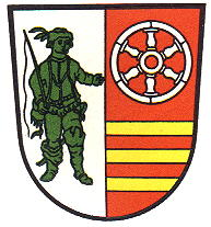 Coat of Arms of Frammersbach